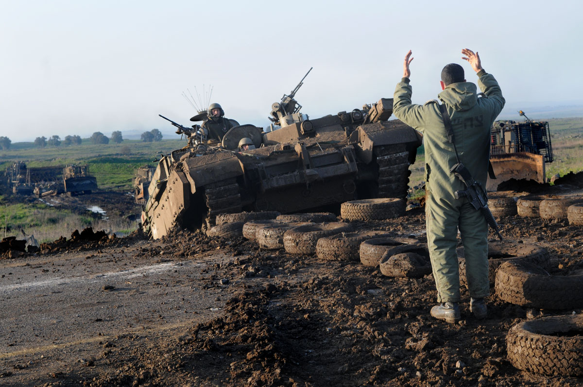 February 28, 2012 Last month, the IDF Artillery Corps' cadets conducted a competence day, testing their abilities by competing one another. On that day, the soldiers competed in many ways- inserting the shells into the canons the fatest, aiming the canon the fastest, and last- firing the shells as quickly and accurately as possible. The Israel Defense Forces Facebook • blog • Twitter